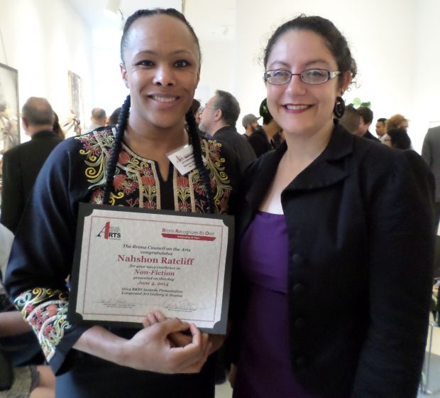 This photo is me (Nahshon Dion Anderson) and Audacia Ray founder of Red Umbrella Project.